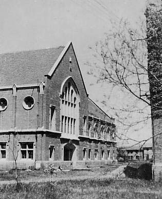 Hu-chiang University